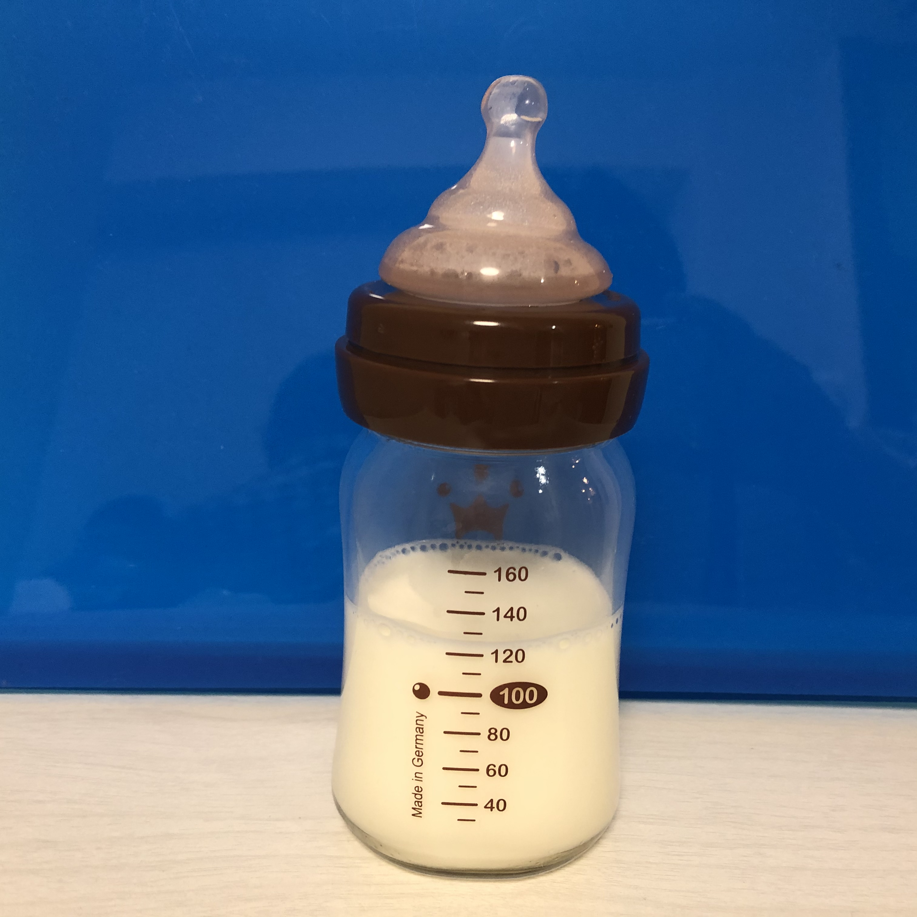 A baby bottle with milk